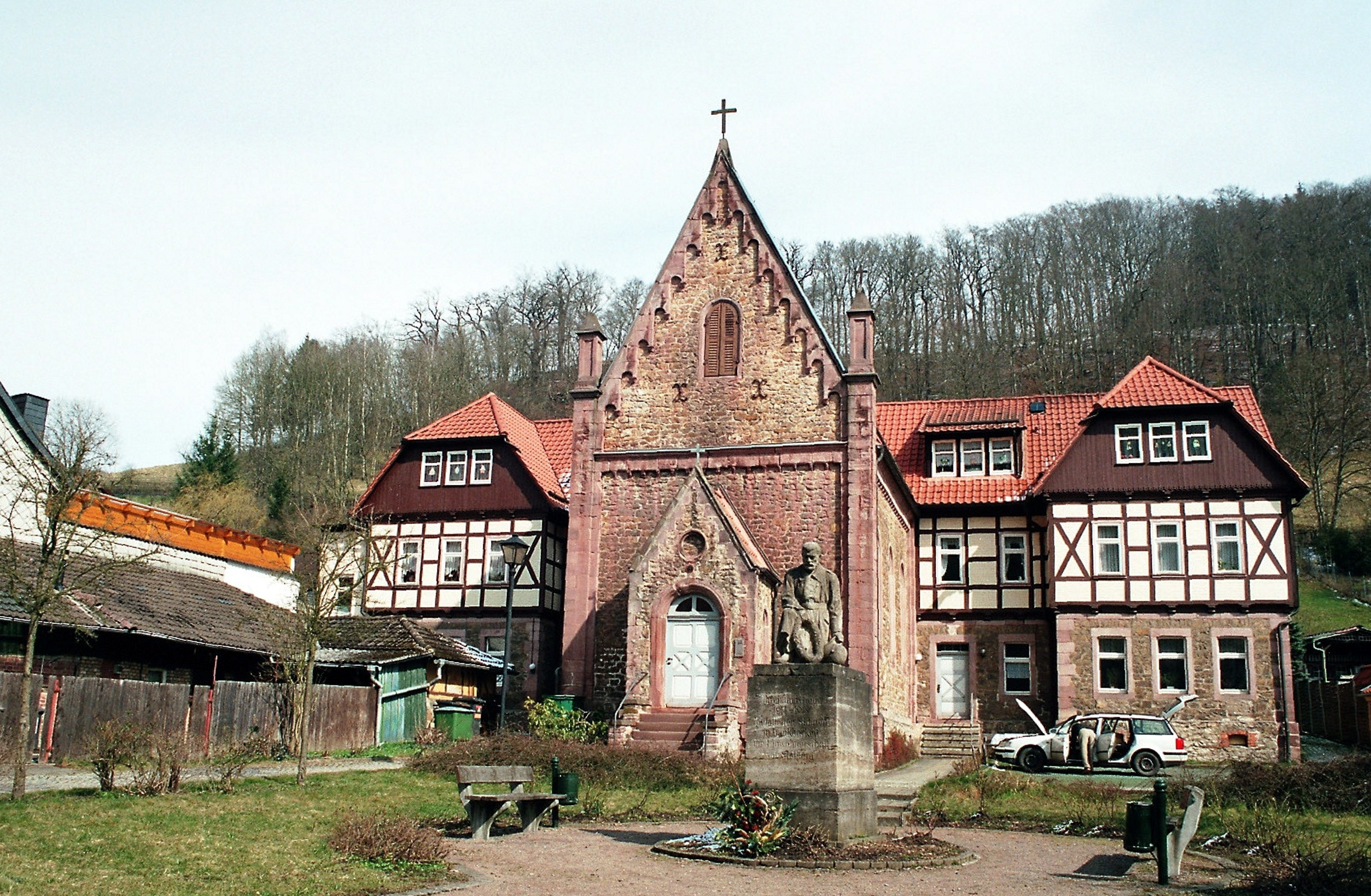 Stolberg (Harz), hospital and chapel St. George This is a photograph of an architectural monument. 30221